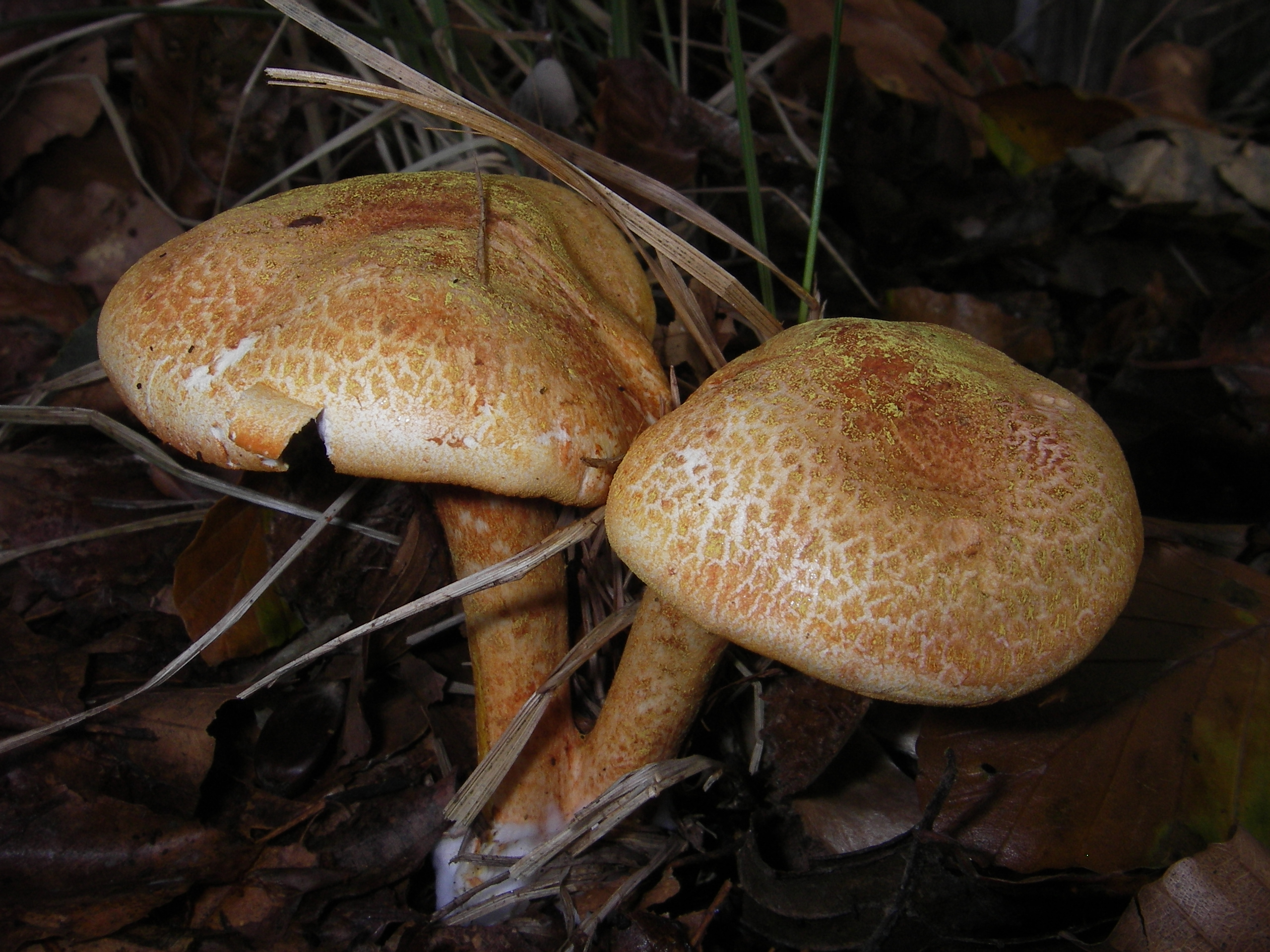 The making of this document was supported by the Community-Budget of Wikimedia Germany.